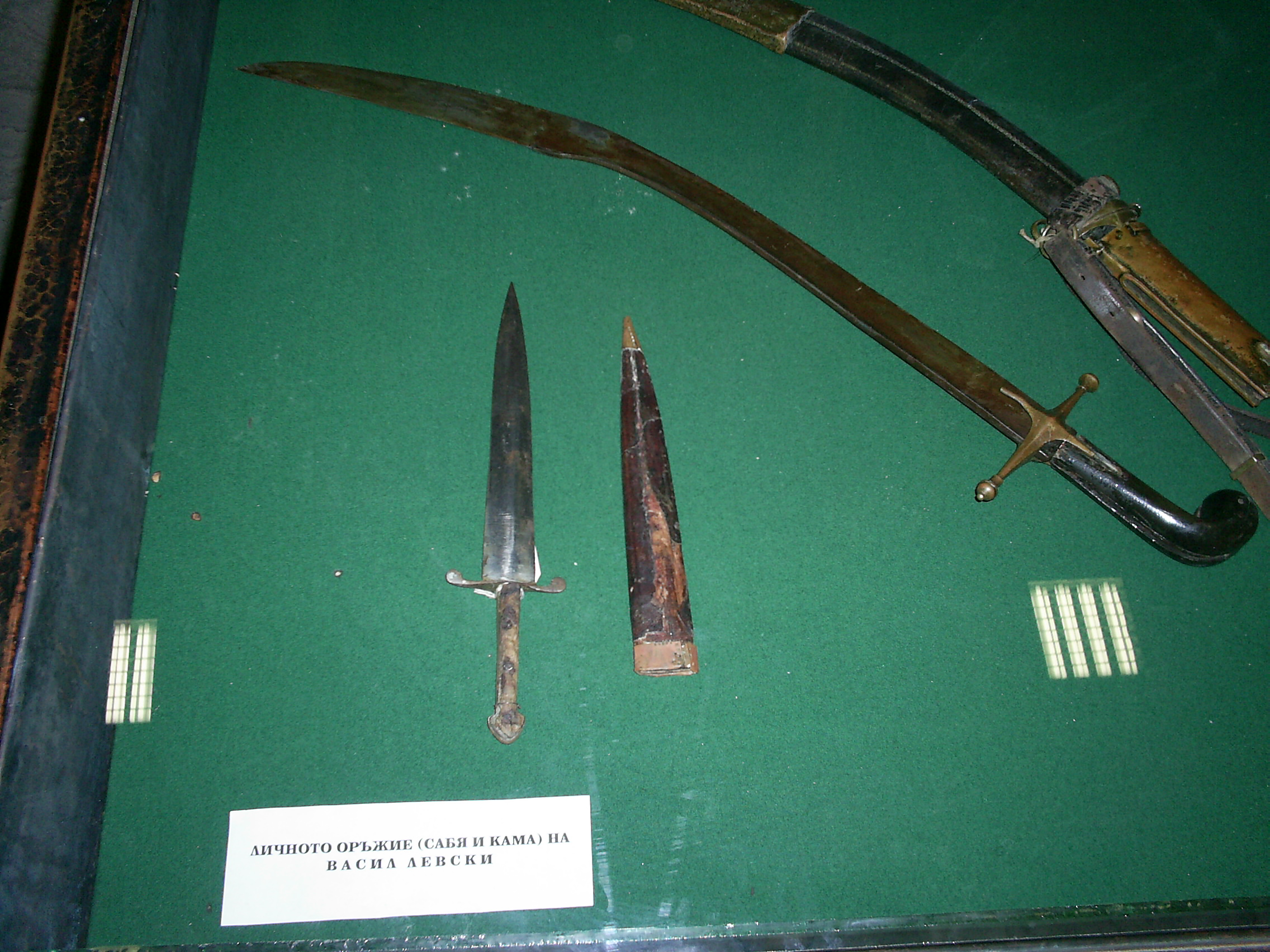 A personally weapon of Vasil Levski - Bulgarian revolutionary, ideologist, strategist and theoretician of the Bulgarian national revolution and leader of the struggle for liberation from Ottoman rule (Museum in Lovech)